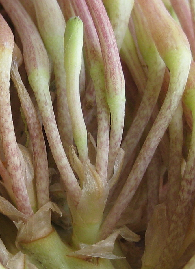 The inflorescence of Sansevieria consists of an indeterminate raceme with axillary glomerules of fascicled cymes. Normally the cymes are very compact (congested), but in this species the secondary axis is clearly visible. 6 to 9 flowers per glomerule in this species.